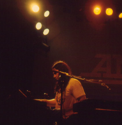 Photo of Christopher North taken at Studio Instrument Rentals sound stage Hollywood CA during dress rehearsal June 1980.